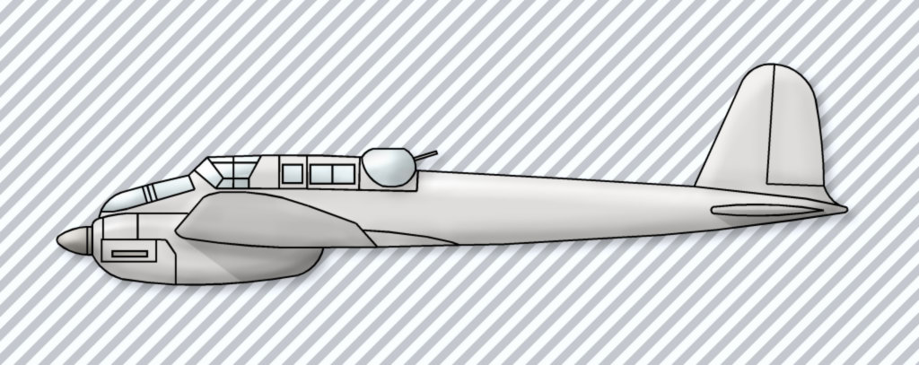 Sketch of Focke-Wulf Fw 57